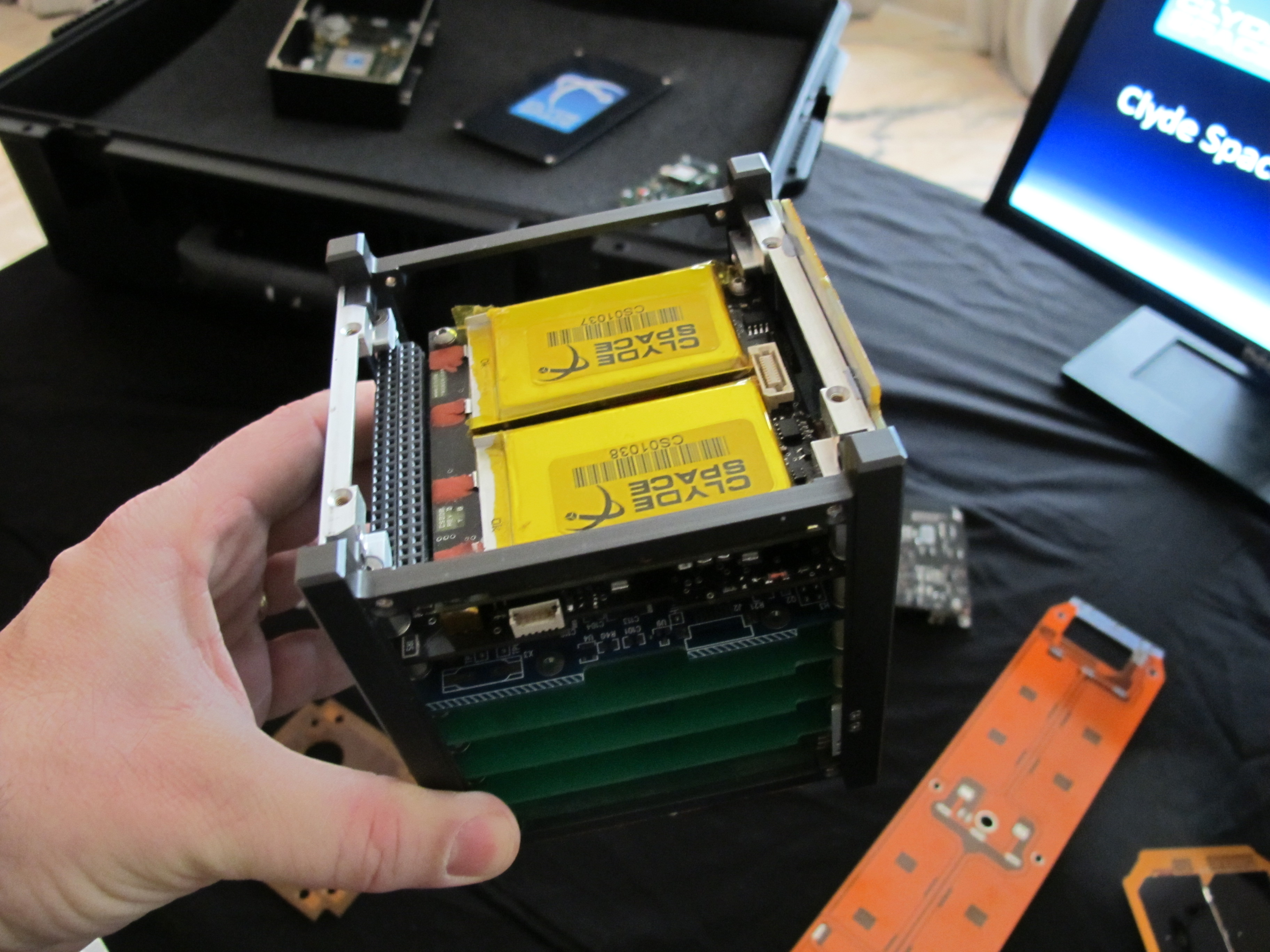 1U cubesat structure without outer skin